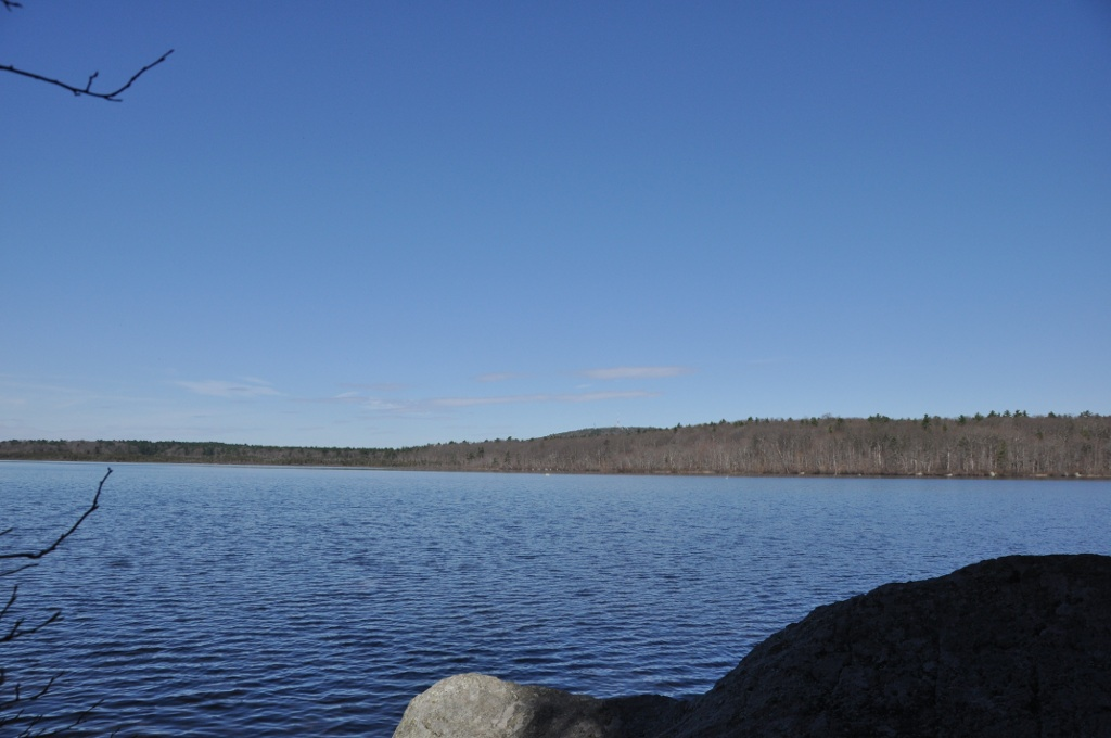 Ponkapoag Pond in Randolph, Massachusetts, part of the Blue Hills Reservation. Great Blue Hill is visible in the distance.